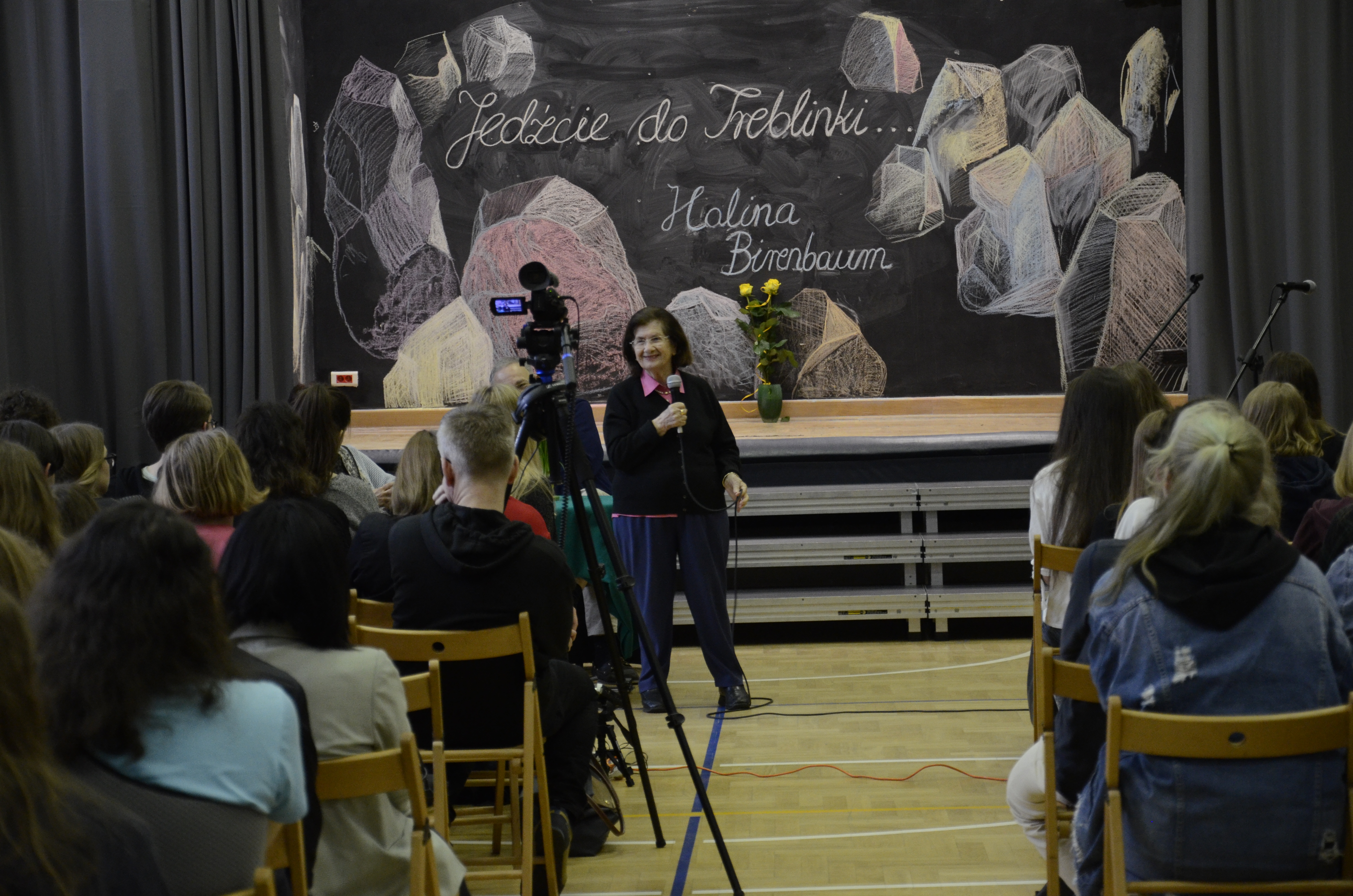 on 17th April of 2018 Halina Birenbaum visited Sobieski Highschool in Warsaw, Poland